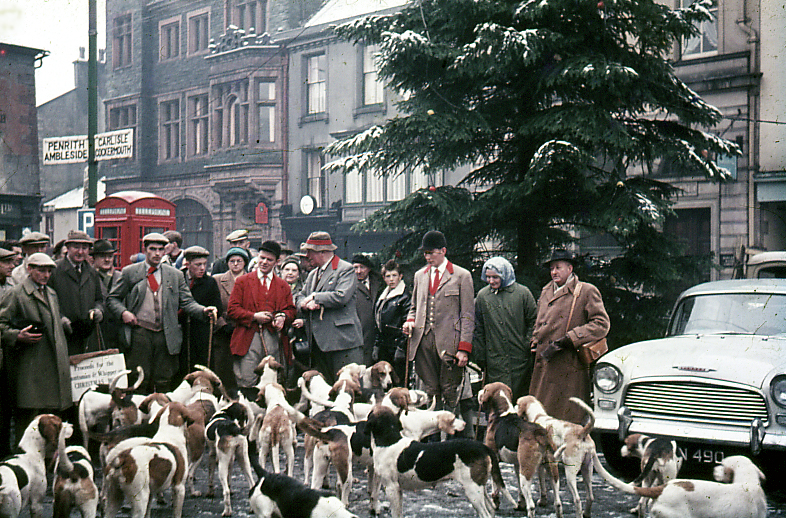 Keswick Boxing Day Hunt, Market Square, Cumbria, Lakes District, England. 1962Keswick Boxing Day hunt, Keswick Market Square, Cumbria 1962